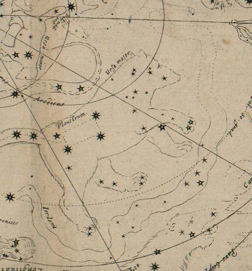 Jordanus